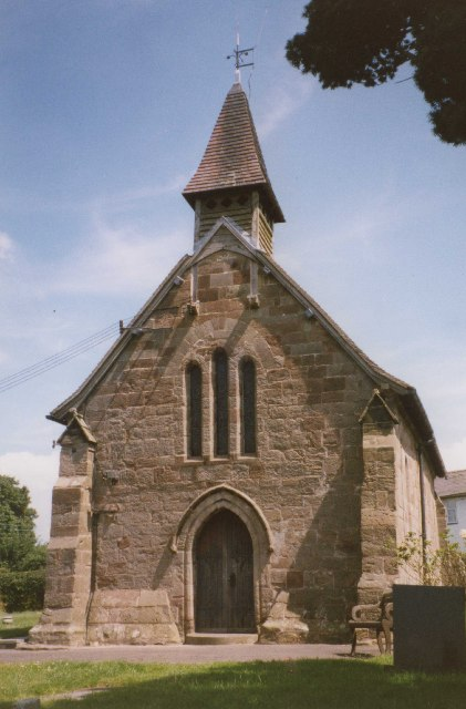 Coppenhall Church. St Lawrence's, described by Pevsner as 'the perfect 13C village church, small but with great dignity.' The bell-turret is a Victorian addition.